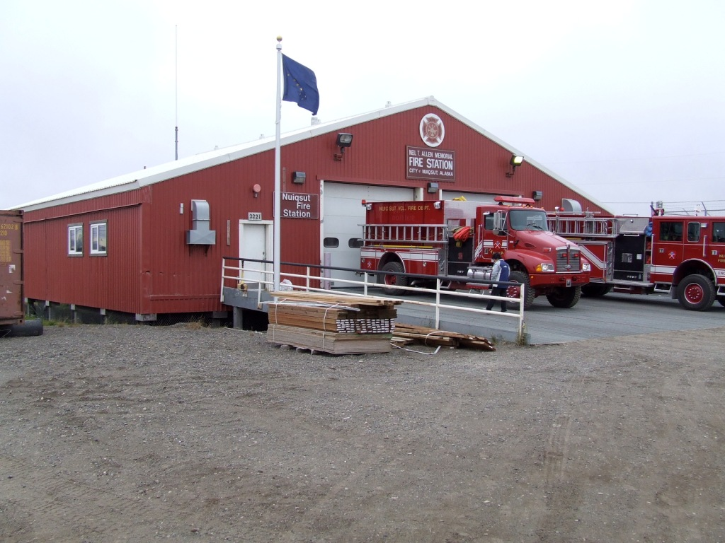 Volunteer Fire Station in Nuiqsut, SK